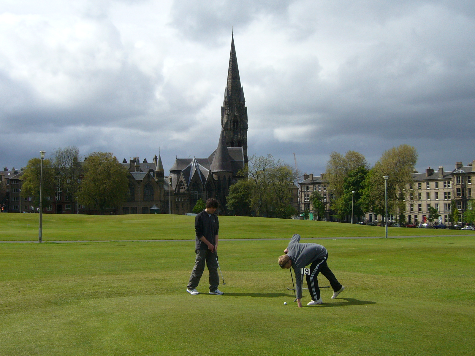 Bruntsfield Links is one of the oldest places in Scotland associated with golf. The modern park maintained by Edinburgh District Council includes a 36-hole "pitch and putt" course. "The youths in this country are very manly in their exercises and amusements. Strength and agility seems to be most their attention. The insignificant pastimes of marbles, tops, &c. they are totally unacquainted with. The diversion which is peculiar to Scotland, and in which all ages find great pleasure, is golf. They play at it with a small leathern ball, like a fives ball, and a piece of wood, flat on one side, in the shape of a small bat, which is fastened at the end of a stick, of three or four feet long, at right angles to it. The art consists in striking the ball with this instrument, into a hole in the ground, in a smaller number of strokes than your adversary. This game has the superiority of cricket and tennis, in being less violent and dangerous; but in point of dexterity and amusement, by no means to be compared with them. However, I am informed that some skill and nicety are necessary to strike the ball to the proposed distance and no further, and that in this there is a considerable difference in players. It requires no great exertion and strength, and all ranks and ages play at it. They instruct their children in it, as soon as they can run alone..." -- Edward Topham, Letters From Edinburgh, 1775 In 1687–1688 Thomas Kincaid played here, and noted in his diary the earliest known instructions for playing golf.